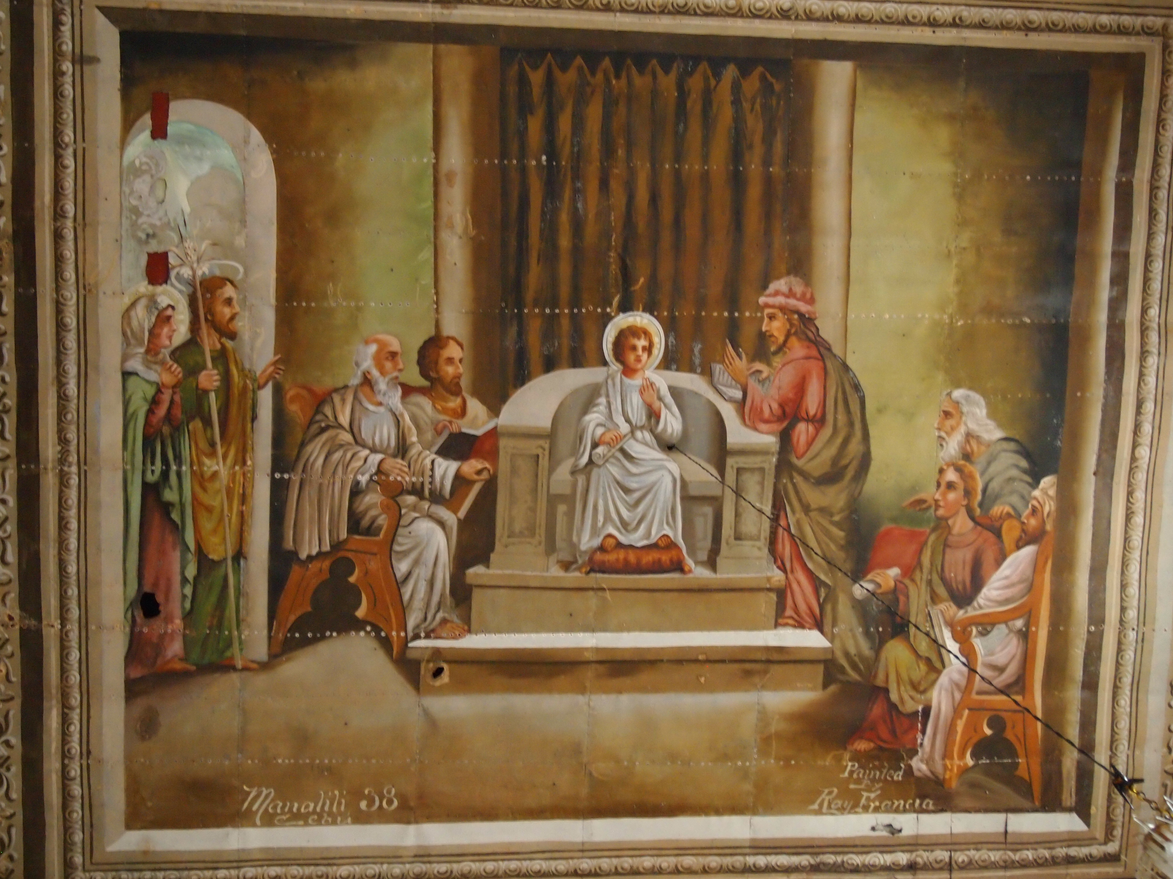 The painting on the ceiling was done by Cebuano painter Rey Francia. Francia was one of two painters commissioned by Cebu bishops to paint the churches in Bohol in the 1920s-1930s. His trademark style could be found in a number of the churches we visited.